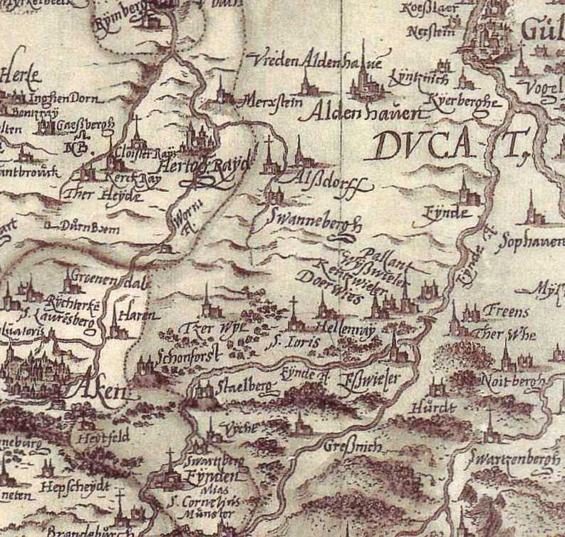 Detail from an Atlas (Kalkar, 1573) of the german cartographer Christian Sgrothen (1525-1604). This part of the map shows the river Inde and the town of Aachen